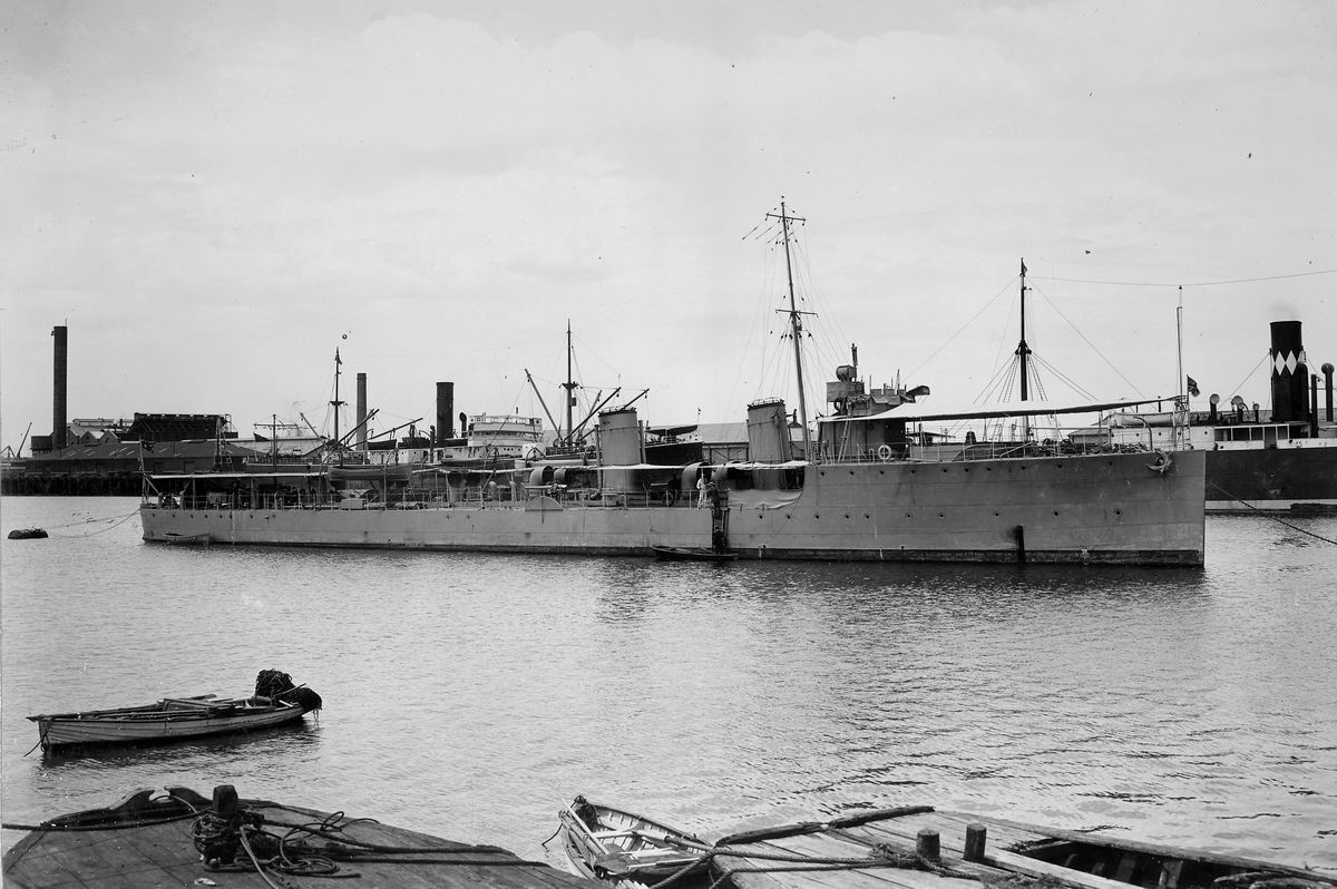 River class destroyer H.M.A.S. Yarra at Port Adelaide, South Australia. HMAS Yarra and HMAS Parramatta were on their delivery voyage from the U.K. They arrived from Albany, Western Australia, on 5 December 1910 and departed for Melbourne, Victoria, on 8 December 1910. PRG 280/1/44/63 Visit the State Library of South Australia to view more photos of South Australia